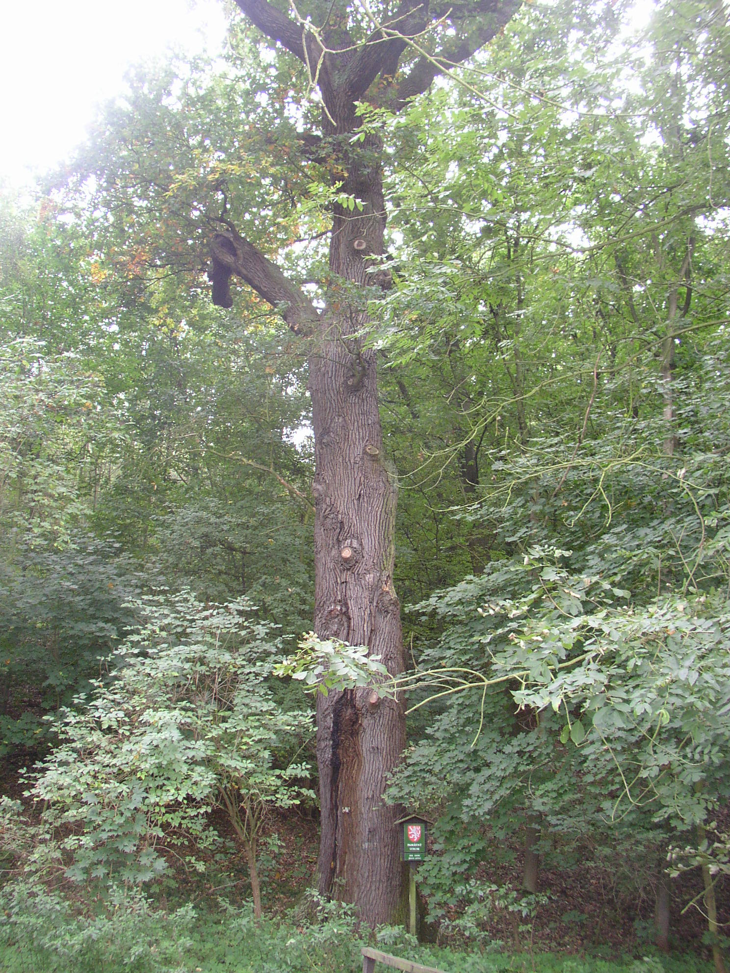 Protected example of Sessile Oak (Quercus petraea) near Zeměchy, suburb of Kralupy nad Vltavou, Czech Republic.